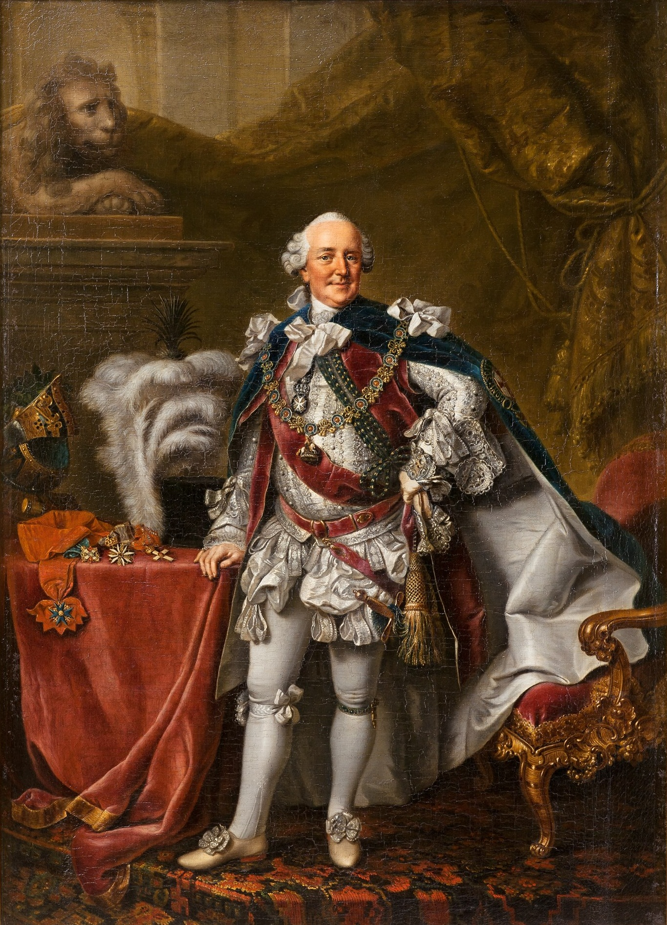 Portrait of Duke Ferdinand of Brunswick-Wolfenbüttel (1721–1792), Prussian Field-Marshal, showing him in his robe of the Order of the Garter with the blue ribbon of the Garter under his left knee